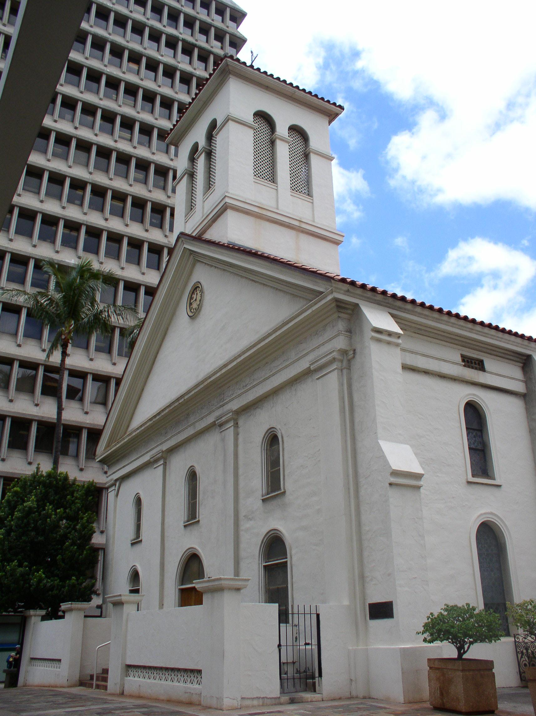 Eastern face of Cathedral of Our Lady of Peace in Honolulu, Hawaii